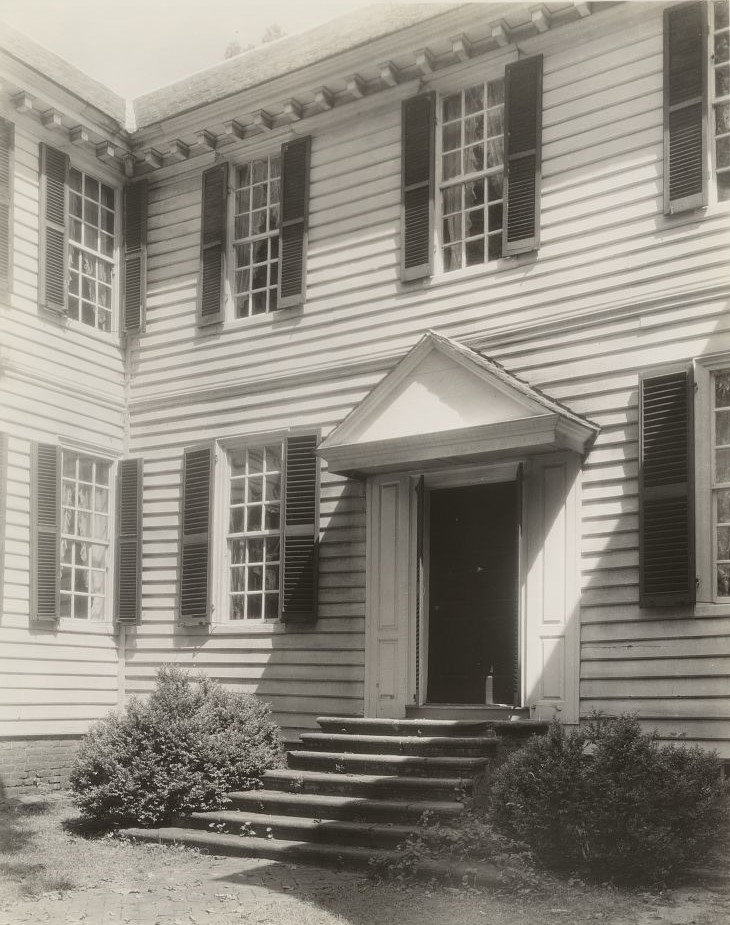 itle Tuckahoe, Goochland County, Virginia Contributor Names Johnston, Frances Benjamin, 1864-1952, photographer Created / Published 1936 April. Subject Headings - United States--Virginia--Goochland County--. - Doors & doorways. - Clapboard siding. - Houses. - Virginia--Goochland County Format Headings Photographic prints. Notes - Title from photographer's inventory. - Building/structure dates: ca. 1712. - Related names: Mrs. N. Addison Baker. - Built by Thomas Randolph. Small outbuilding in yard where Thos. Jefferson went to school. Frame with brick ends. - Original Carnegie Survey of the Architecture of the South neg. no. is VA-1830. Library has no record of having this negative. - No corresponding reference print found in LOT 11841-38. - Forms part of: Carnegie Survey of the Architecture of the South (Library of Congress). Medium 1 photographic print. Call Number/Physical Location LOT 12643-21 [item] [P&P] Repository Library of Congress Prints and Photographs Division Washington, D.C. 20540 USA Digital Id csas 04840 //hdl.loc.gov/loc.pnp/csas.04840 Control Number csas200904910 Reproduction Number LC-DIG-csas-04840 (digital file from print) Rights Advisory No known restrictions on publication. Online Format image Description 1 photographic print.